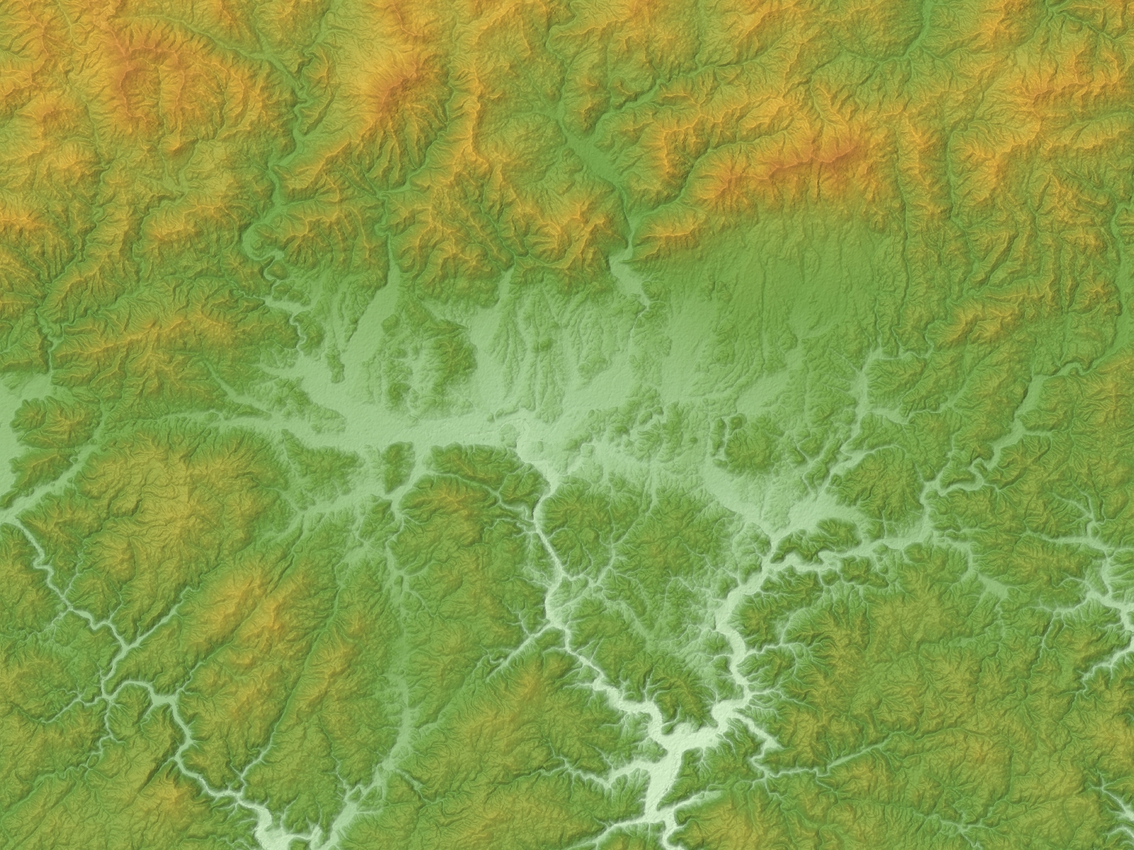 Tsuyama Basin in Okayama Prefecture, Honshu, Japan.